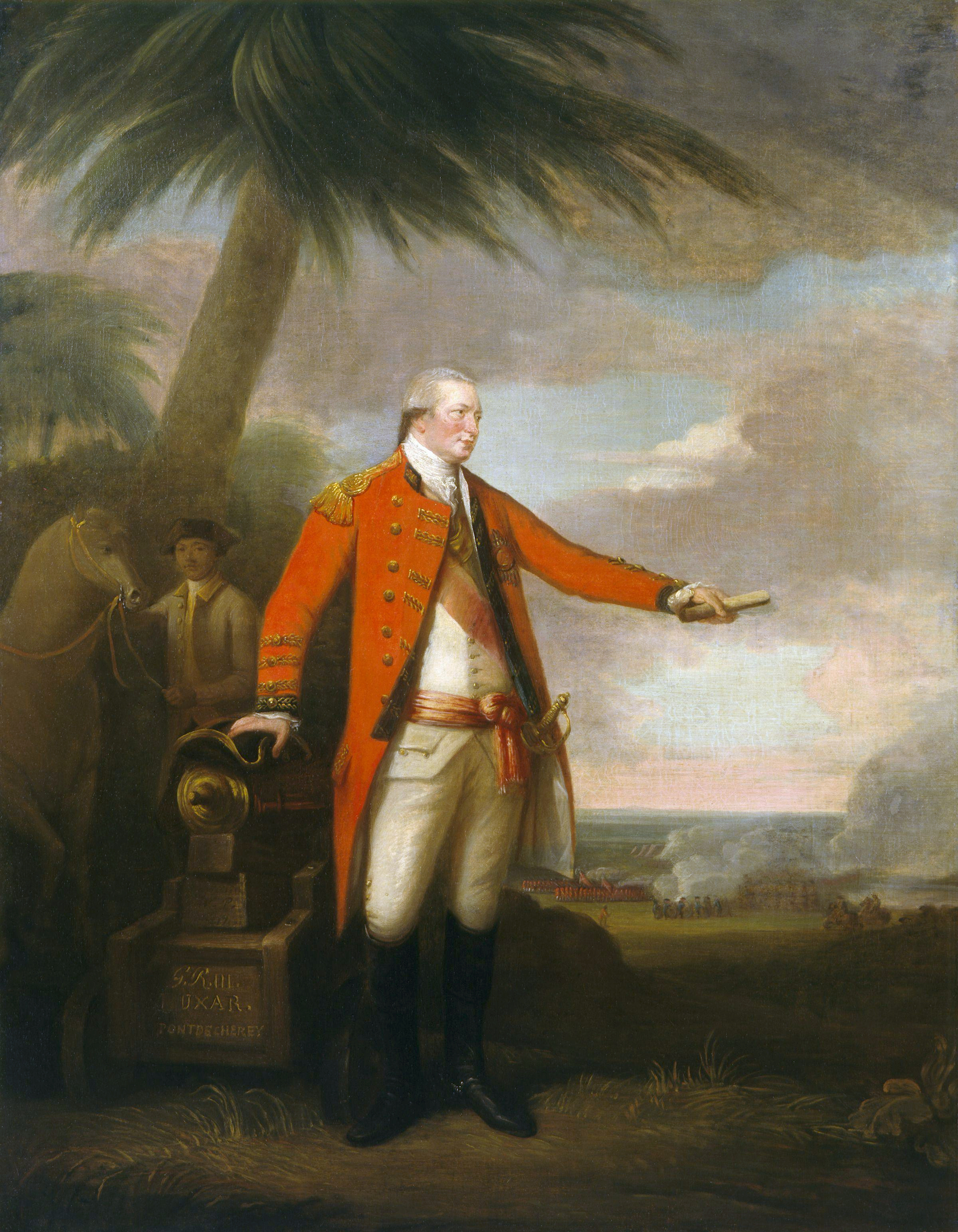 Sir Hector Munro, by David Martin (died 1797). All images in this batch have been confirmed as author died before 1939 according to the official death date listed by the NPG.